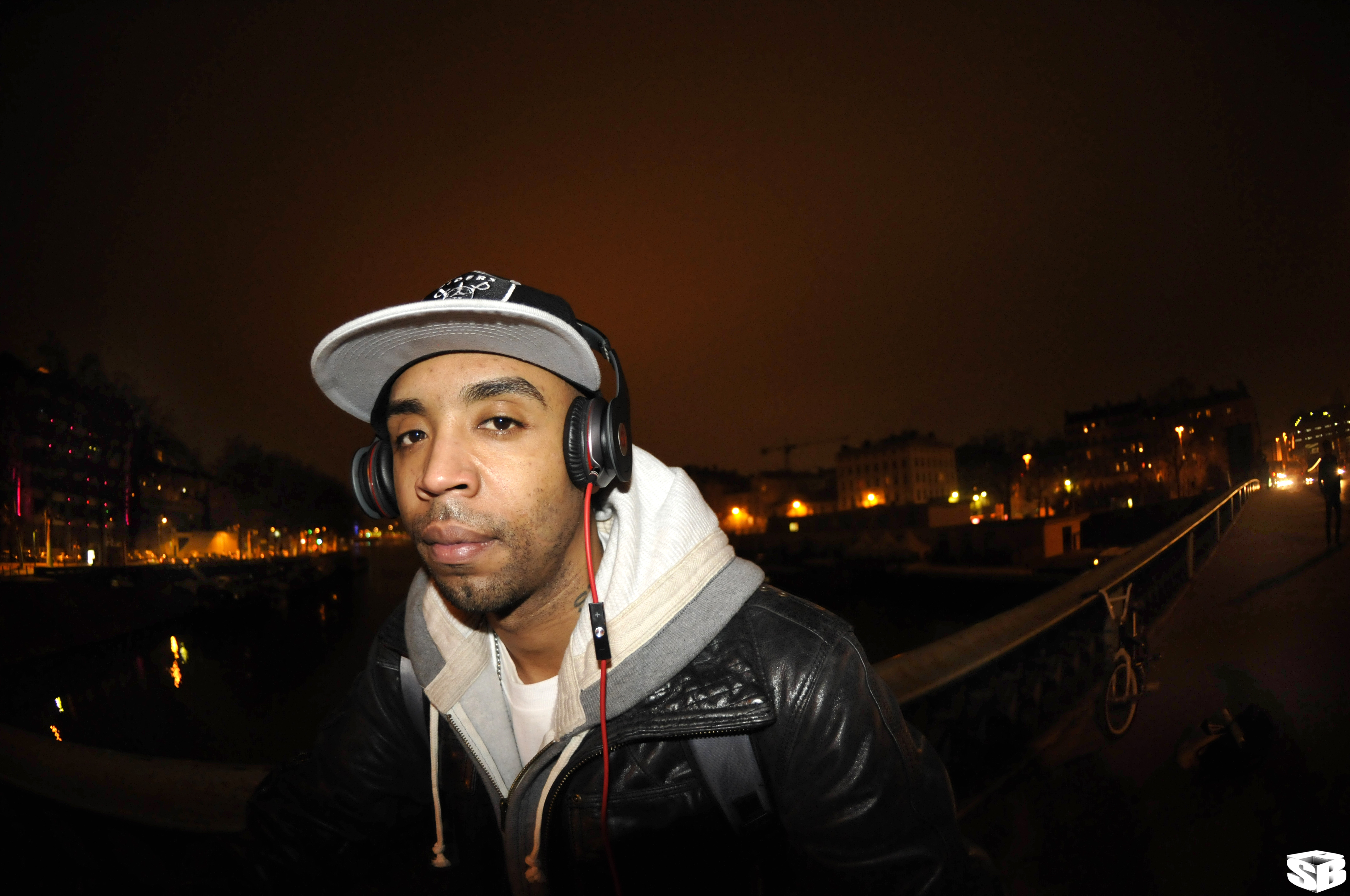 Shyheim in 2011.